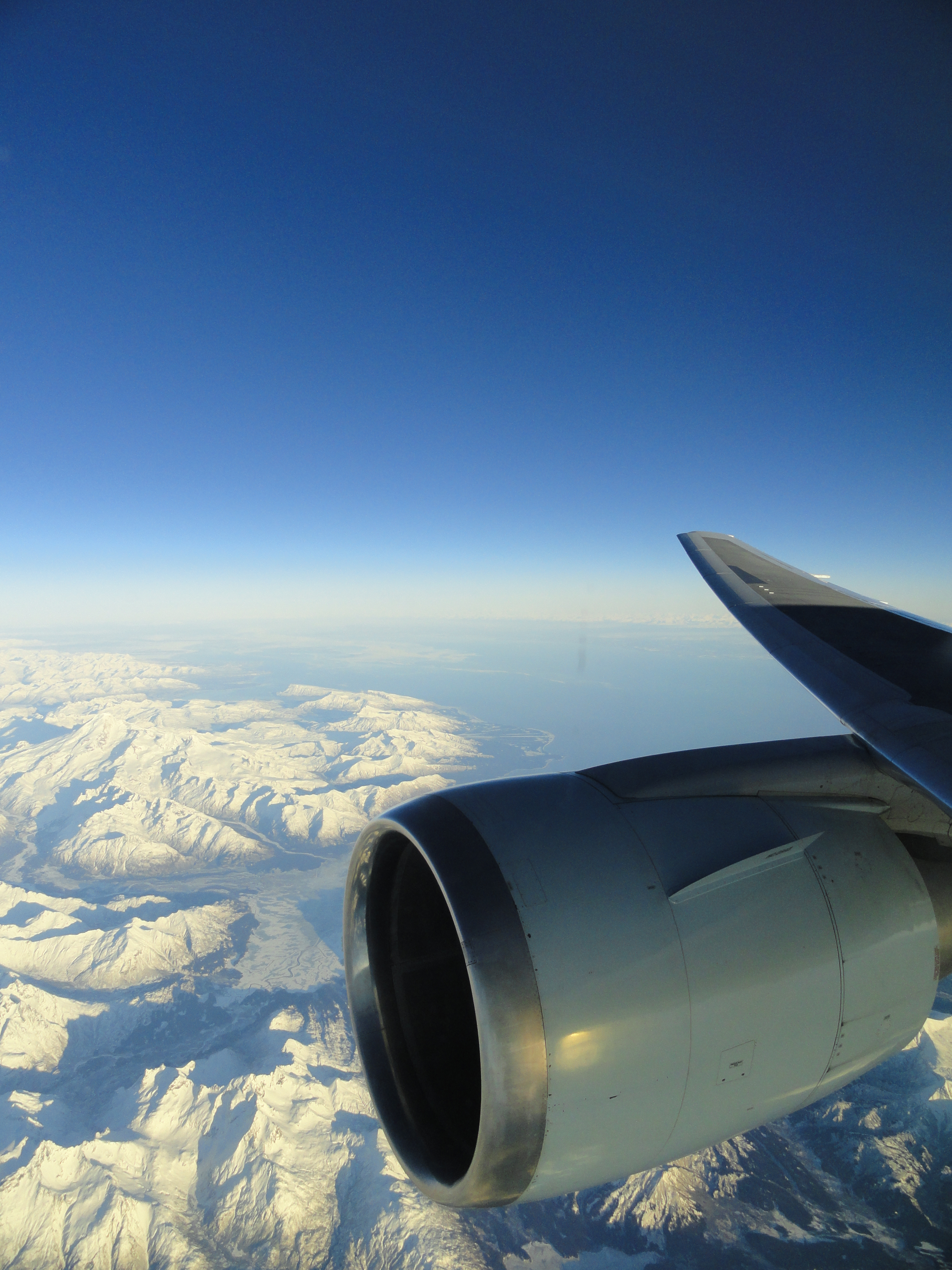 Air Canada Boeing 767-300ER GE CF6 inflight of Alaska, USA.